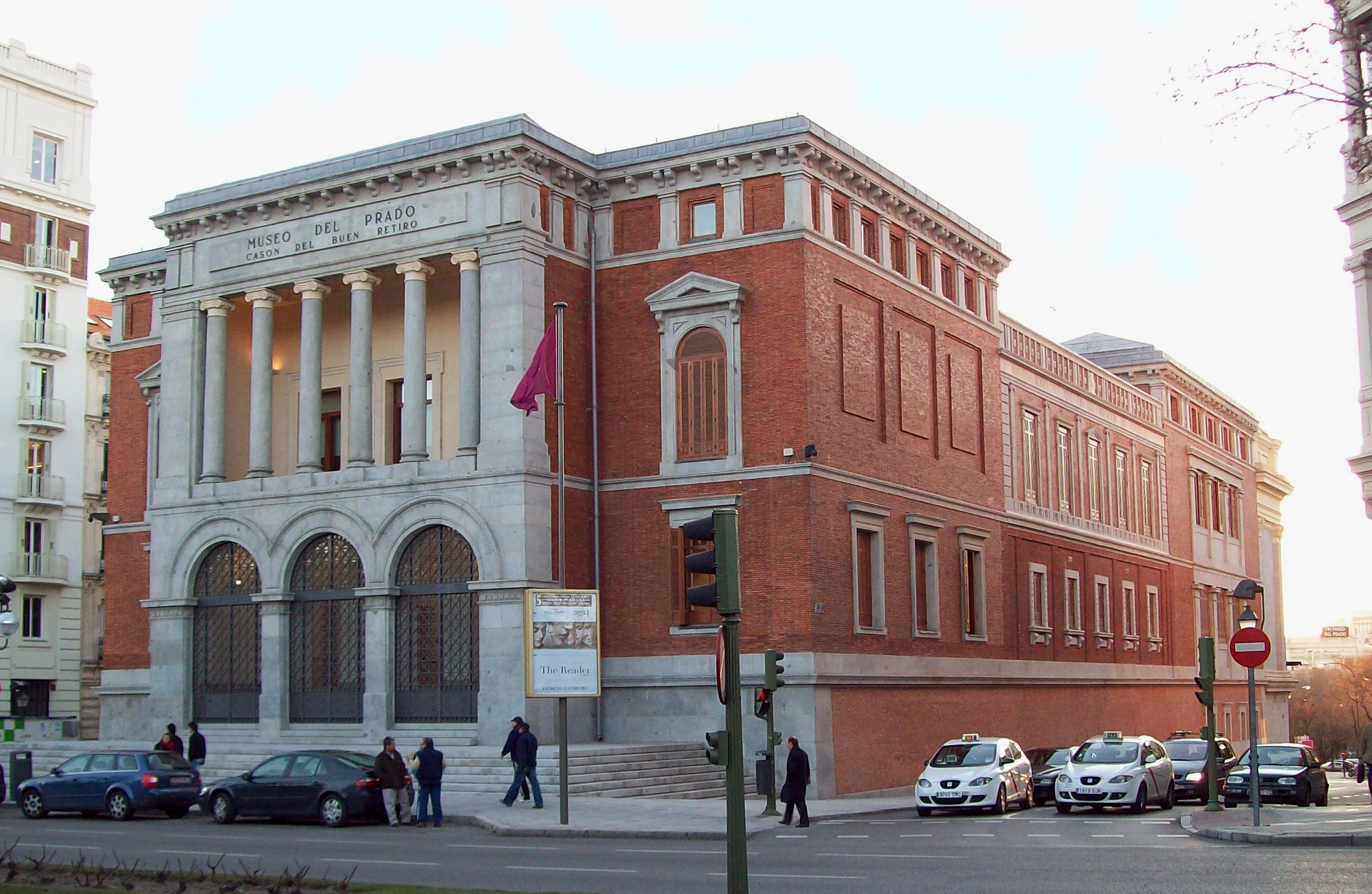 View, from the north-east angle (Calle de Alfonso XII, street), of Casón del Buen Retiro in Madrid (Spain).